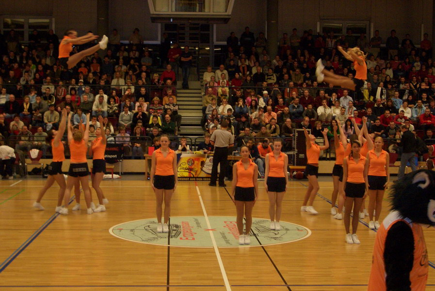 Cheerleaders of our local basketball team "BV TU Chemnitz 99"